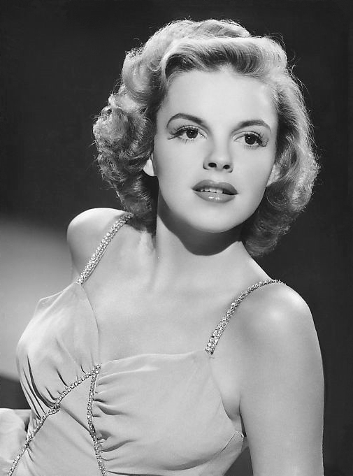 Publicity photograph of Judy Garland used to promote the film Presenting Lily Mars, an MGM production.